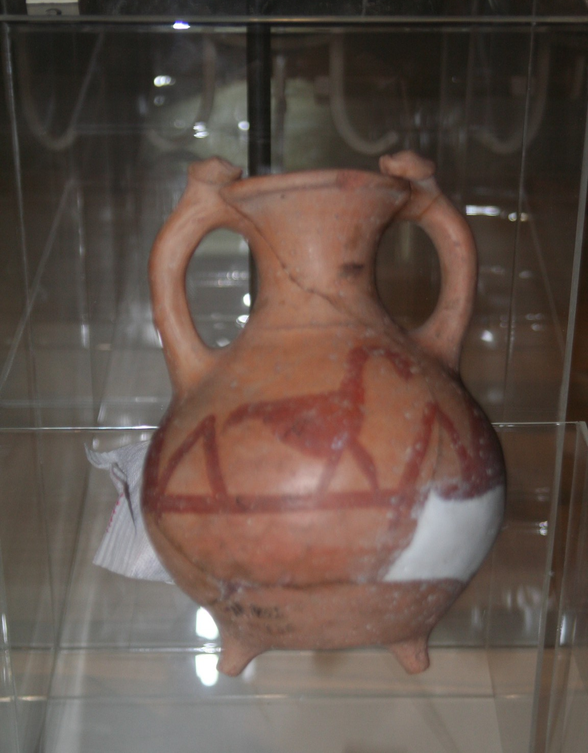 Bird-shaped and zoomorphic clay crockery from Mingachevir (1st - 3rd c AD)